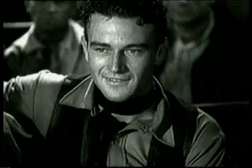 John Wayne in the American western film The Range Feud (1931), directed by D. Ross Lederman.